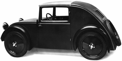 Standard Superior car, built by the Standard Fahrzeugfabrik from Germany according to the patents of German engineer Josef Ganz, 1933.